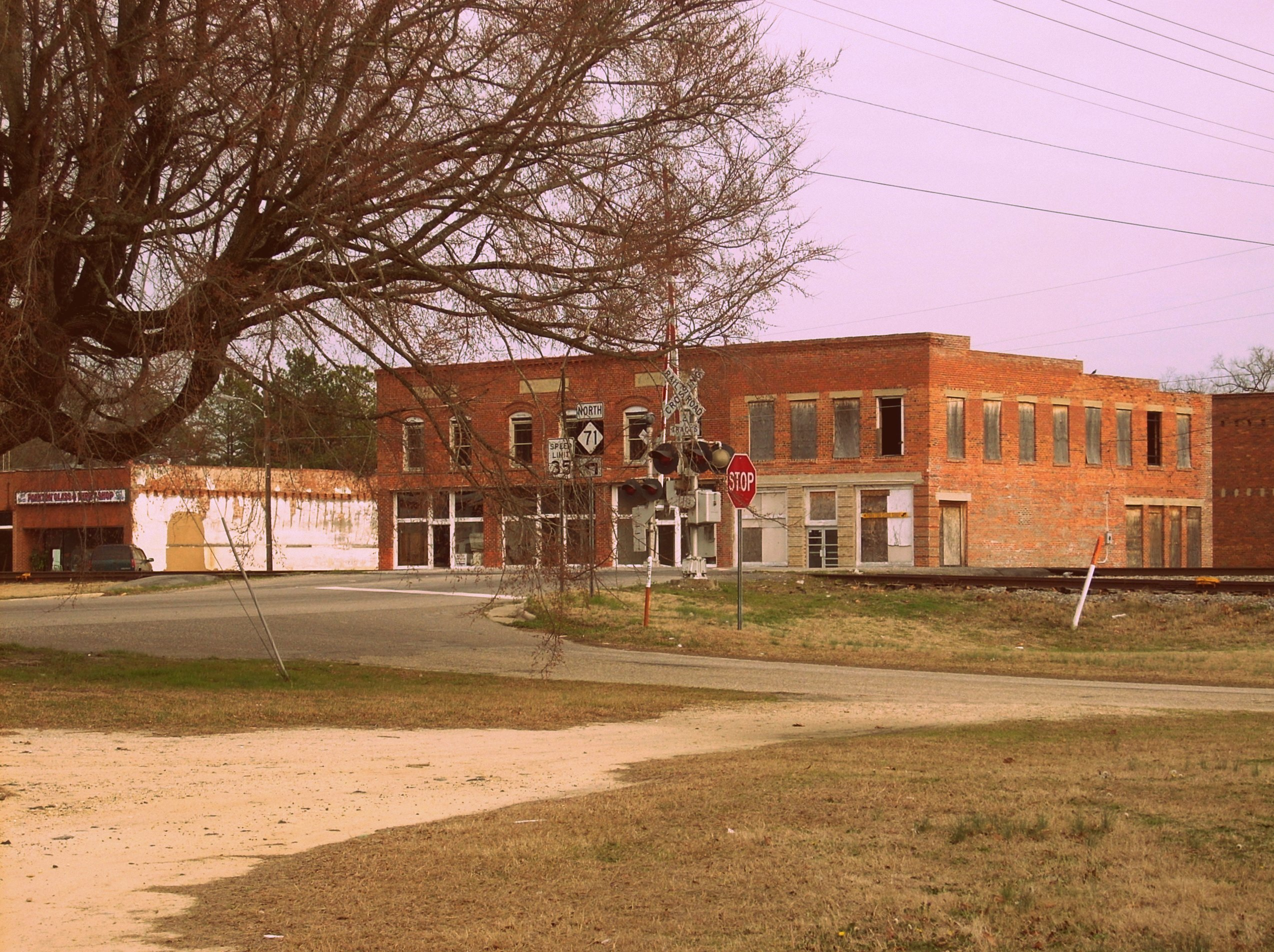 A view of Parkton, Robeson County, North Carolina